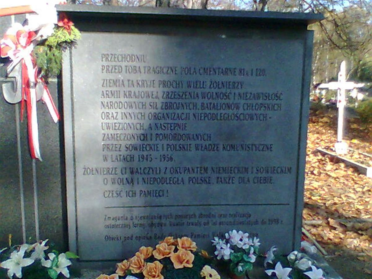 tragic cemetery fields 81A and 120, Osobowicki Cemetery in Wroclaw, Poland